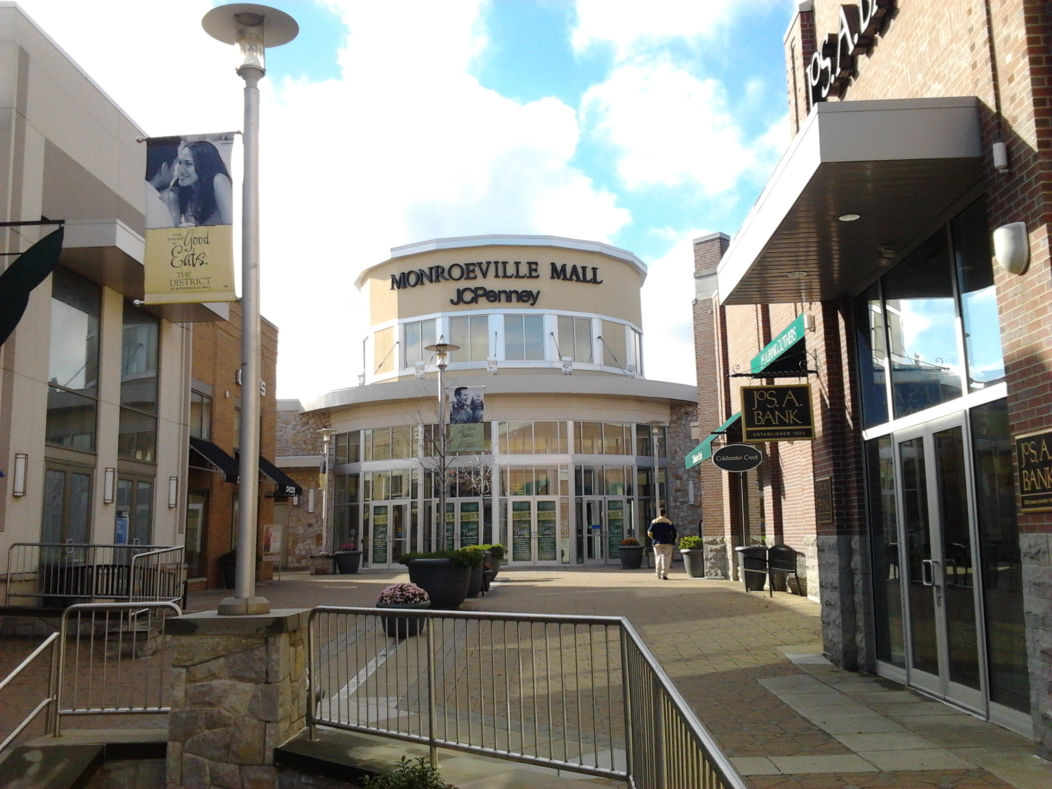 Entrance to the Monroeville Mall, located outside Pittsburgh, PA.